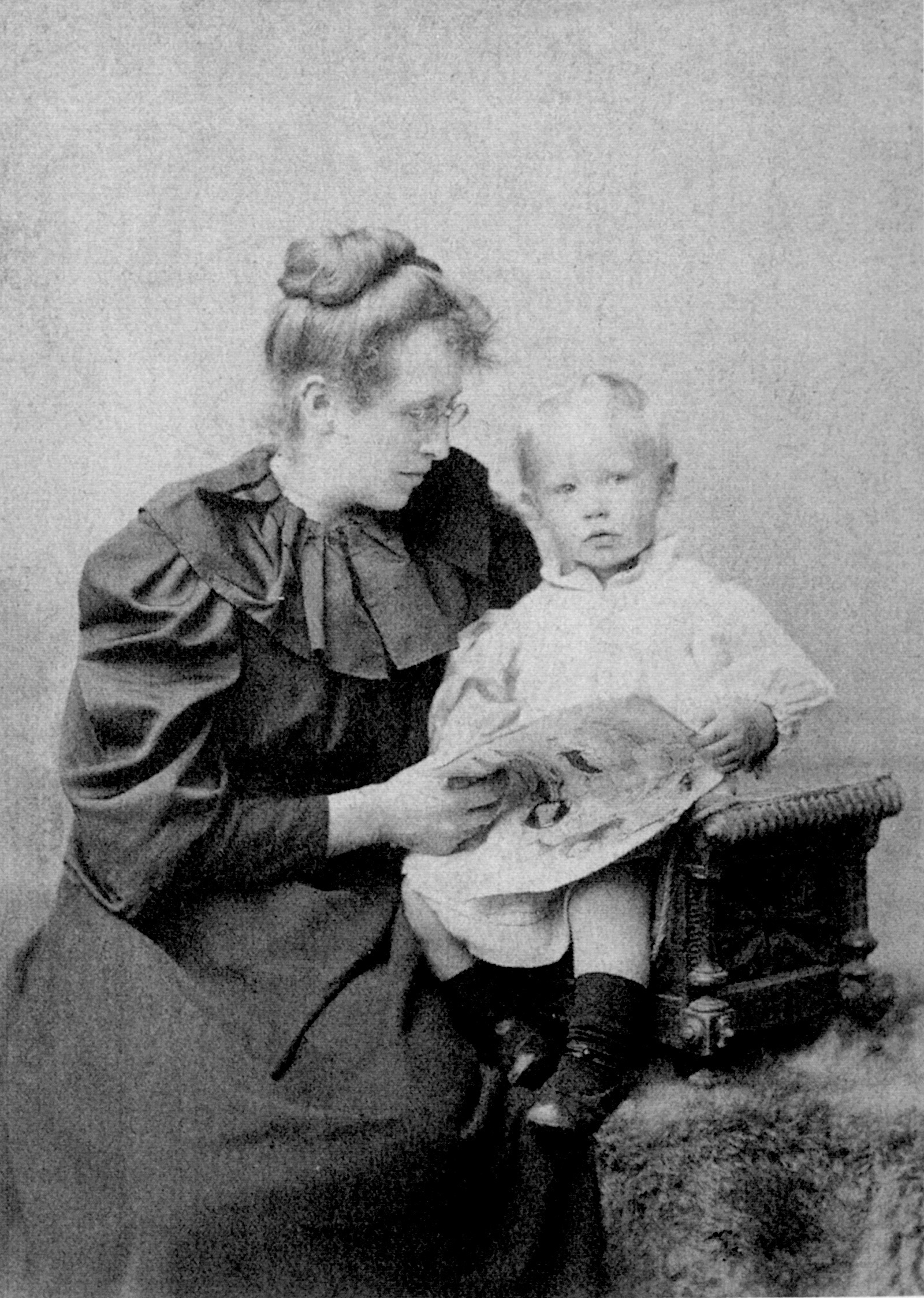 Constance Garnett and her son David, known as Bunny, mid-1890s